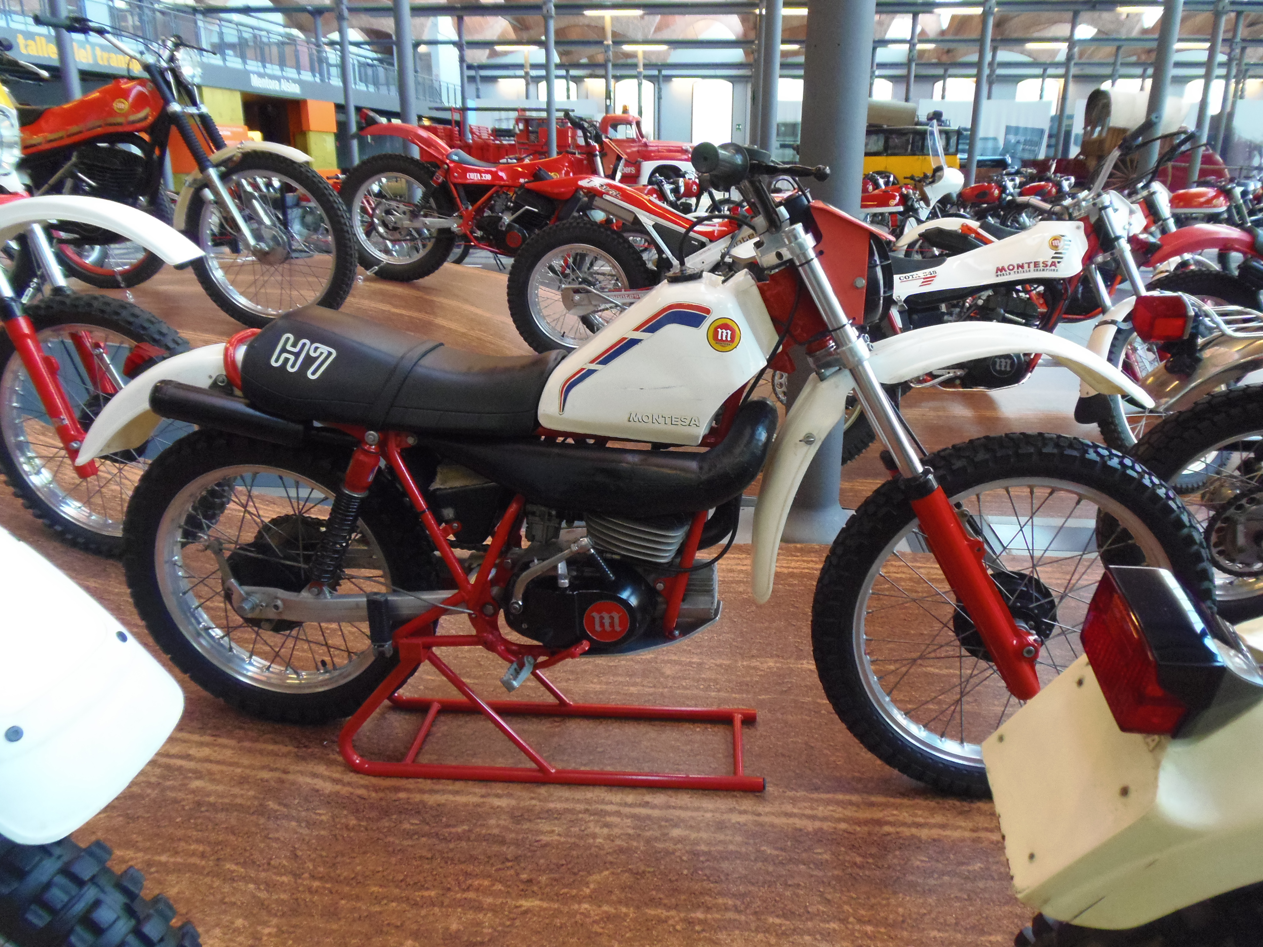 Montesa Enduro 125 H7 Alcor, 1983